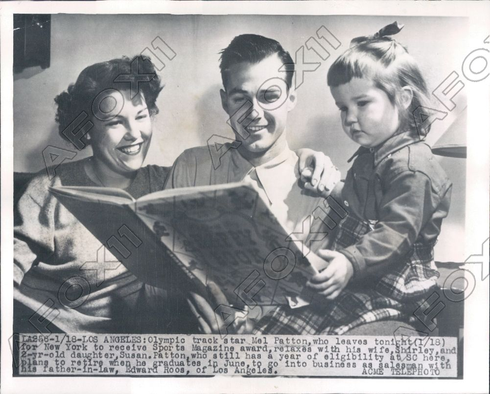 1949 Olympic Track Star Mel Patton Press Photo